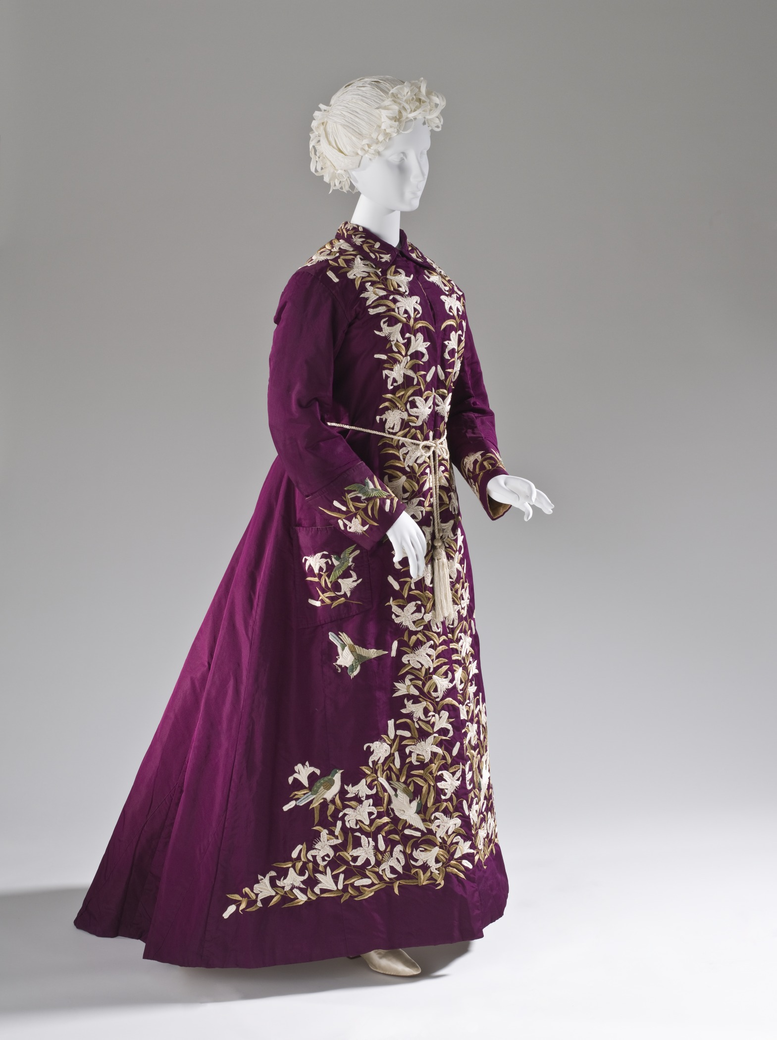 Yokohama, Japan, for the Western market, circa 1885 Costumes; nightwear (entire body) Gown : silk plain weave (faille) with silk embroidery; belt: silk braided cord with tassels Belt length: 67 in. (170.18 cm); Gown center back length: 63 in. (160.02 cm) Purchased with funds provided by Suzanne A. Saperstein and Michael and Ellen Michelson, with additional funding from the Costume Council, the Edgerton Foundation, Gail and Gerald Oppenheimer, Maureen H. Shapiro, Grace Tsao, and Lenore and Richard Wayne (M.2007.211.784a-b) Costume and Textiles